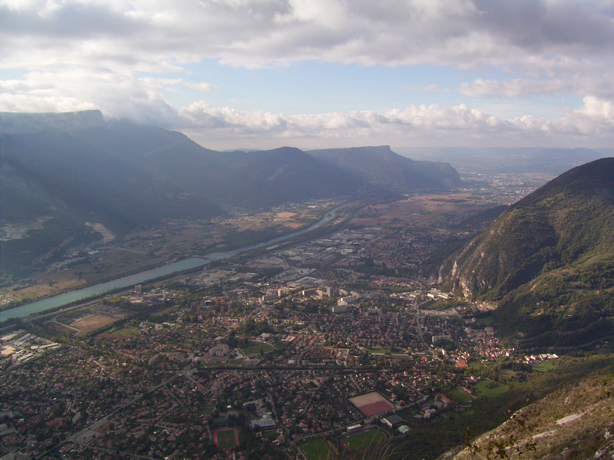 Saint-Egrève from the Néron mountain, Isère, France